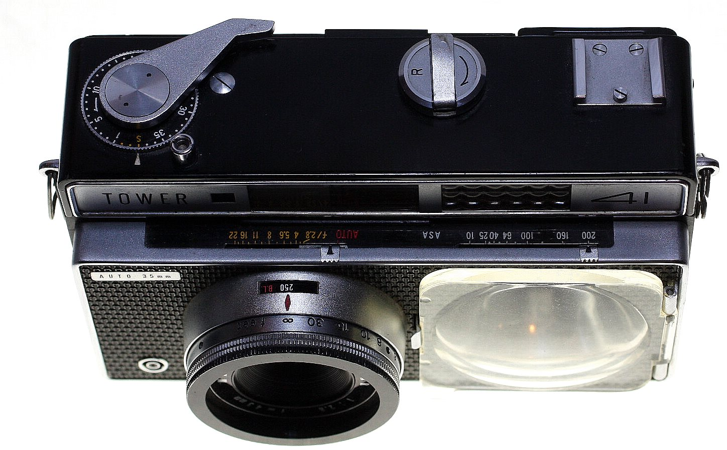 Mamiya's Automatic 35 EEF, sold ind USA as Tower 41 during the 1960s.